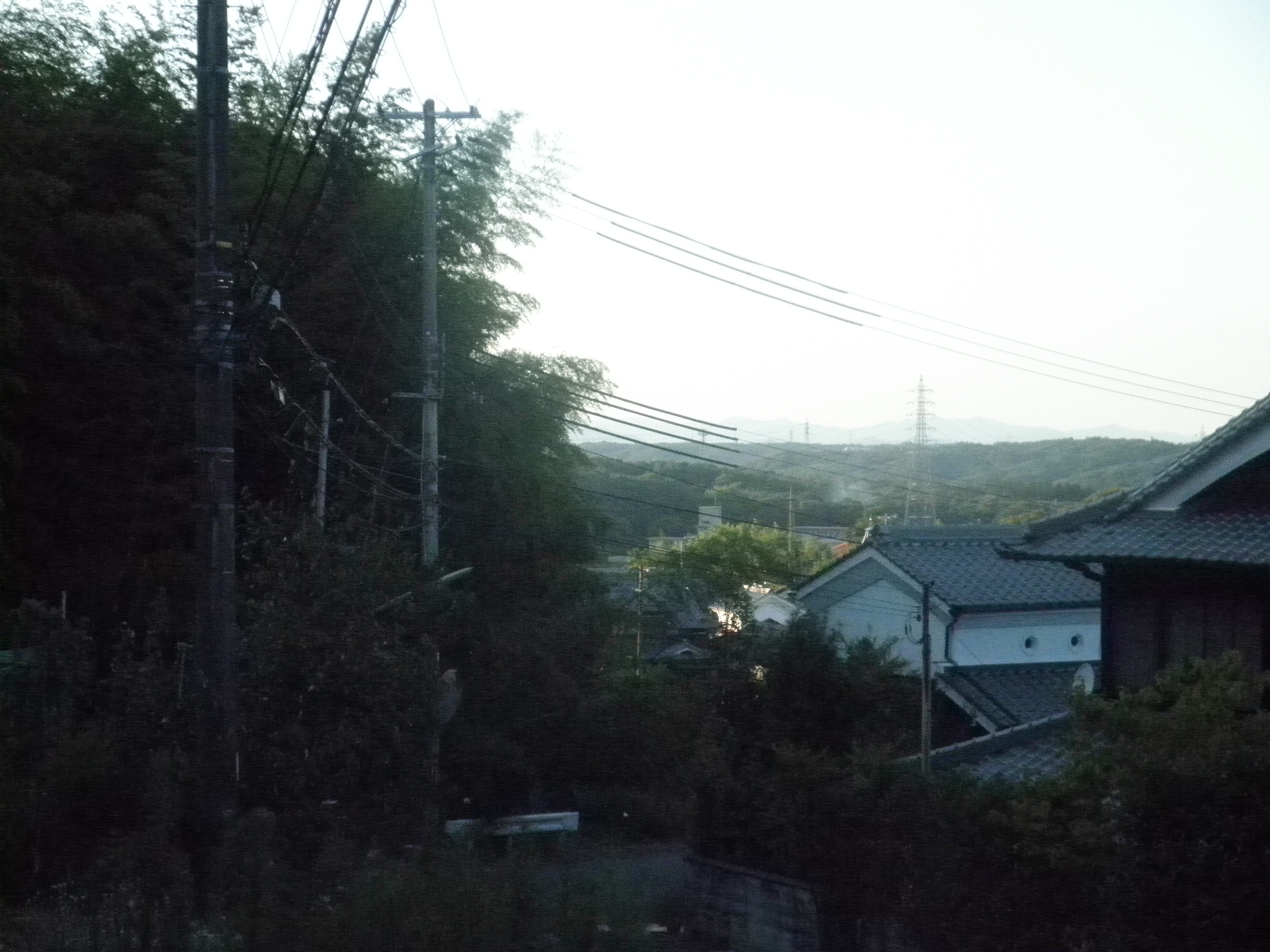 Shijimitown Shigodani Mikicity Hyogopref